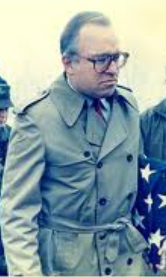 Jon Glassman, U.S. State Dept Officer. Photo taken at U.S. Embassy, Kabul, 1989